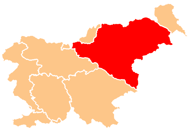 carte de la Basse Styrie = Styrie slovène / map of Lower Styria = Slovenian Styria